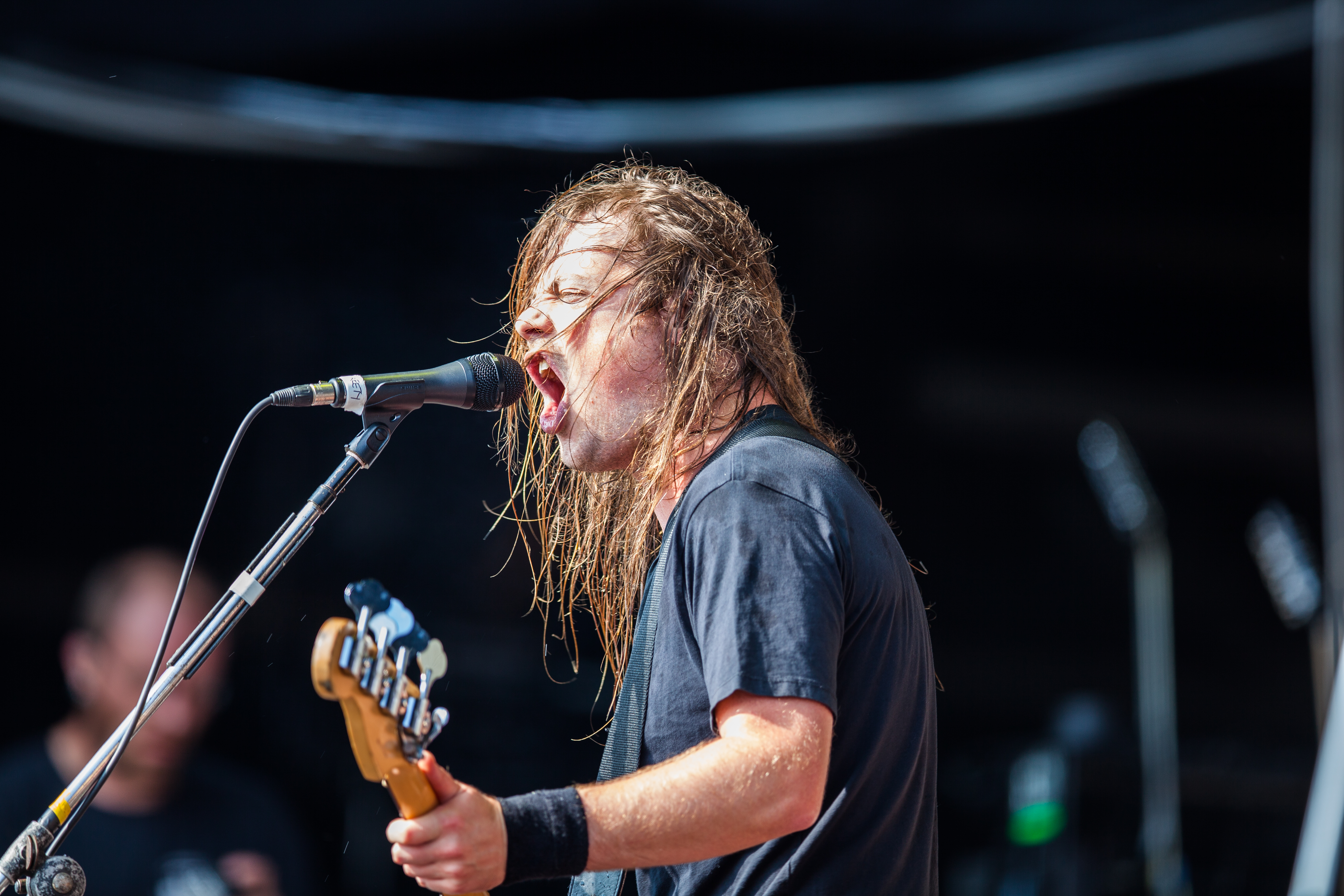 Rock'n'Heim Rock Festival Hockenheim August 2014